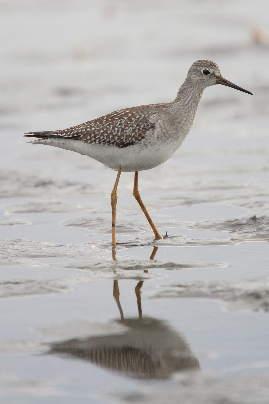 Lesser Yellowlegs (Tringa flavipes), Whitby, Ontario, Canada, 2005 October